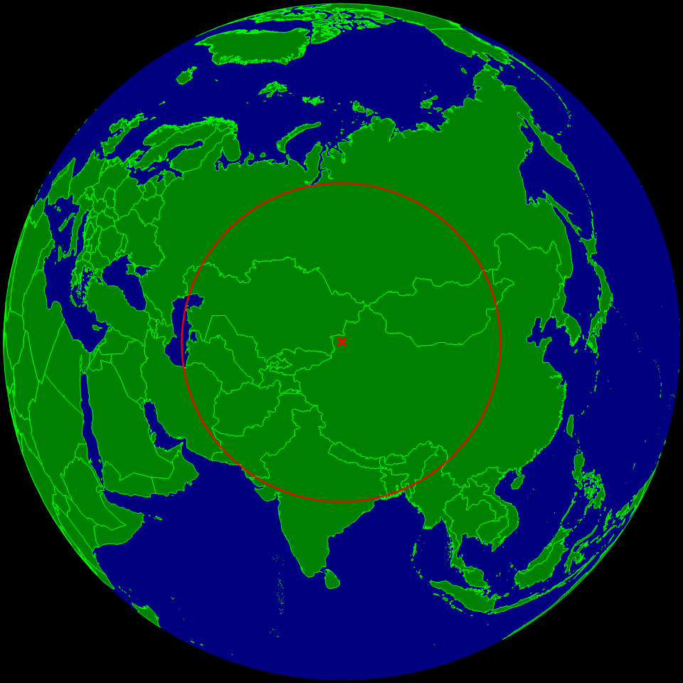 Spherical Earth centered on the continental pole of inaccessibility in the middle of Eurasia. The circle indicates the distance to the nearest ocean (the Caspian Sea on the left is not connected with the ocean).